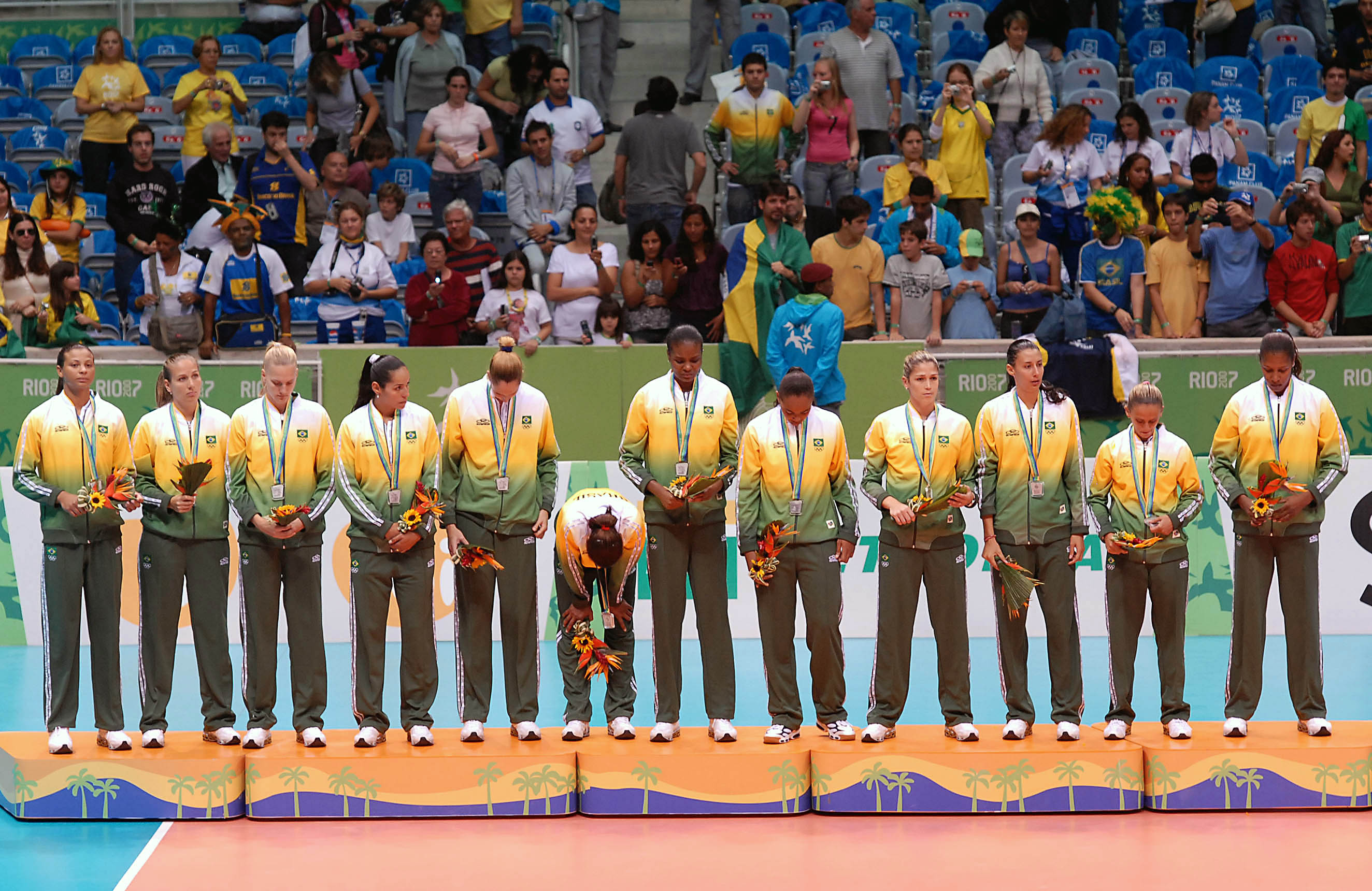 Women's volleyball podium - Rio 2007